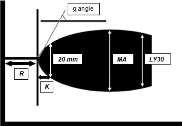 A representative signature waveform of a normal TEG tracing